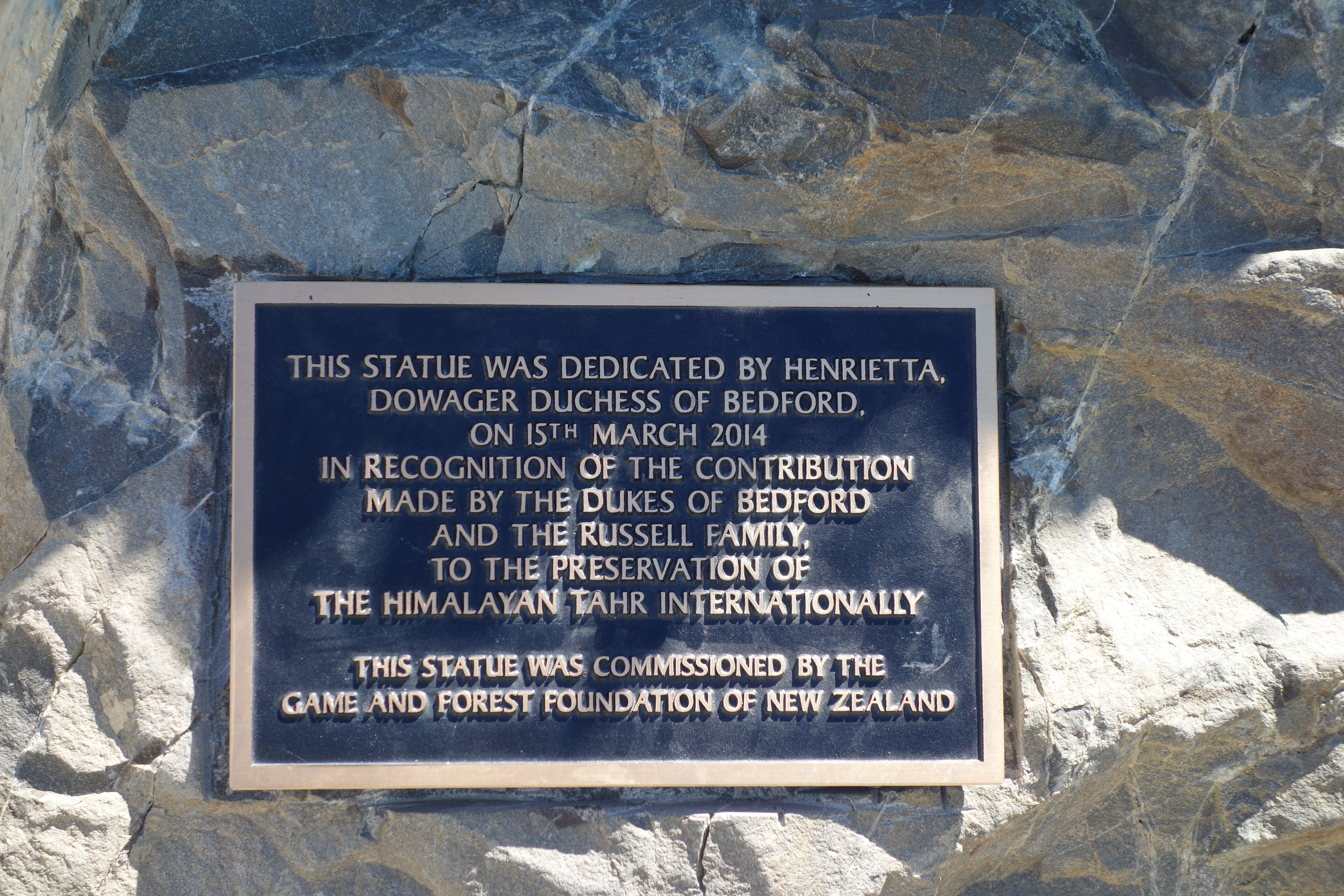 Lake Pukaki Tahr sculpture dedicated by Henrietta, Dowager Duchess of Bedford in recognition of the contribution made by the Dukes of Bedford and the Russell family, to the preservation of the Himalayan tahr internationally. The photo is showing the dedication plaque.